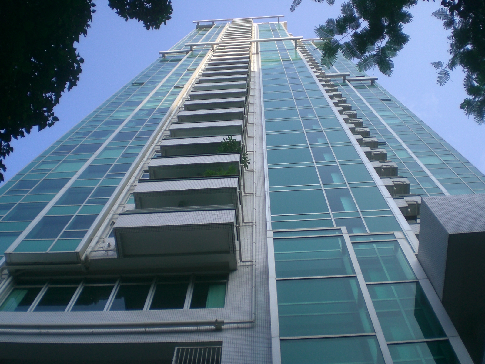 香港島中西區 香港zh:上環的zh:黃昏 的zh:居賢坊 翠麗軒 [1] 物業由裕泰興發展